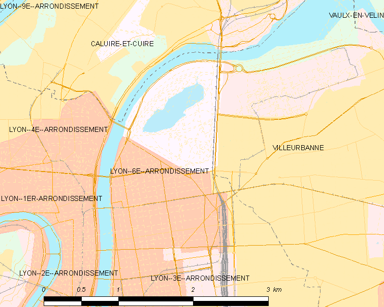 Map of French municipality